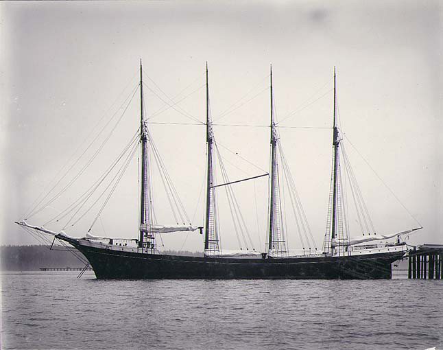 On verso of image: "Latest in way of schooners on Pacific Coast, the name Wm Nottingham, carrying capacity 1,000,000 feet of lumber" Subjects (LCSH): William Nottingham (Schooner); Schooners--Washington (State)--Puget Sound; Puget Sound (Wash.)